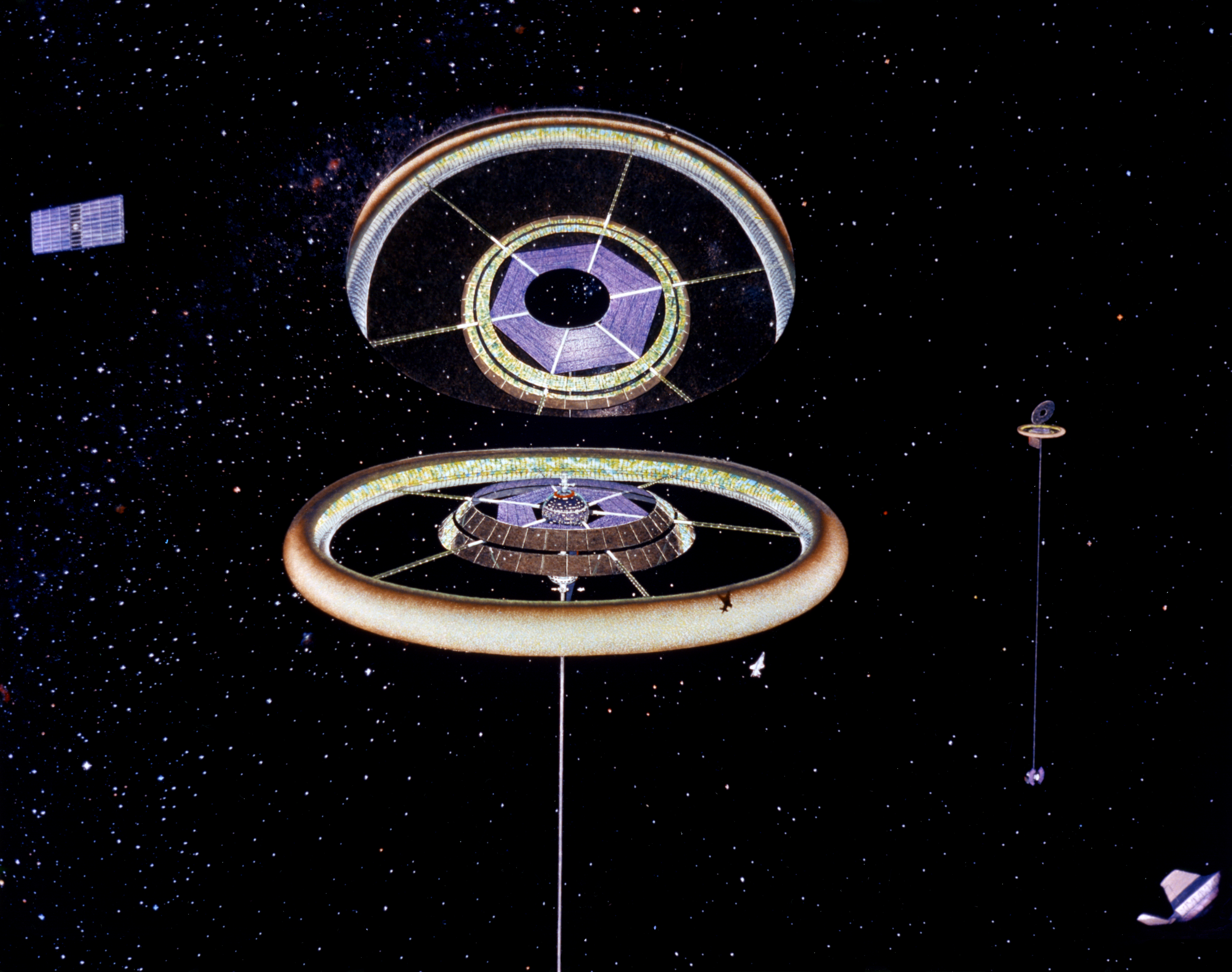 Stanford Torus exterior view.